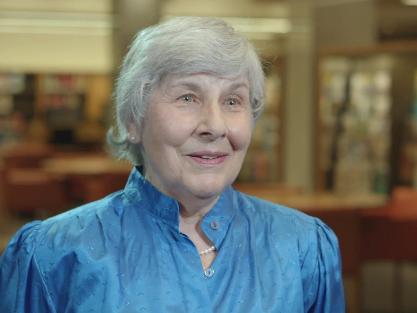 Prof. Sheila Fitzpatrick, an Australian historian.